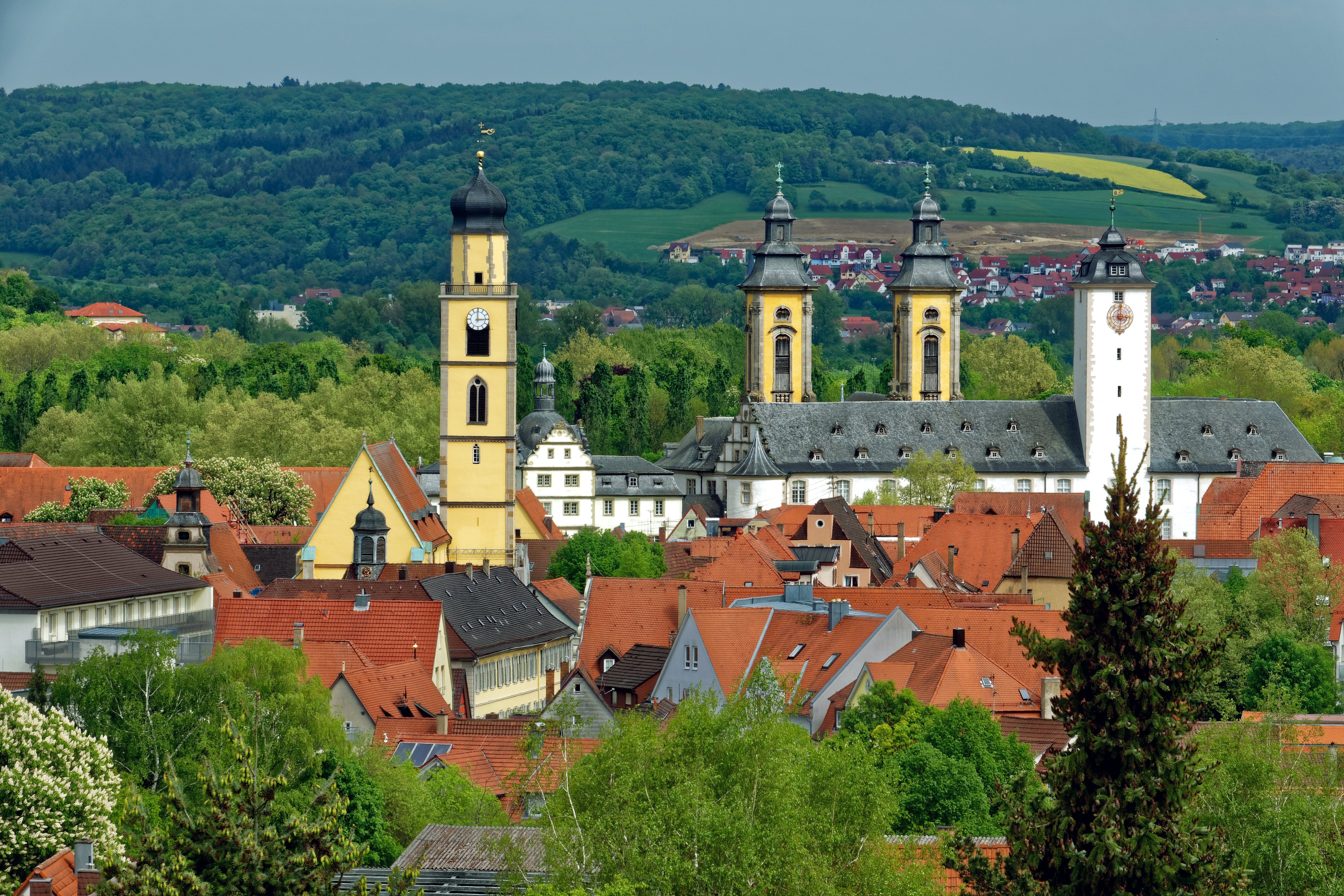 The towers of Bad Mergentheim.